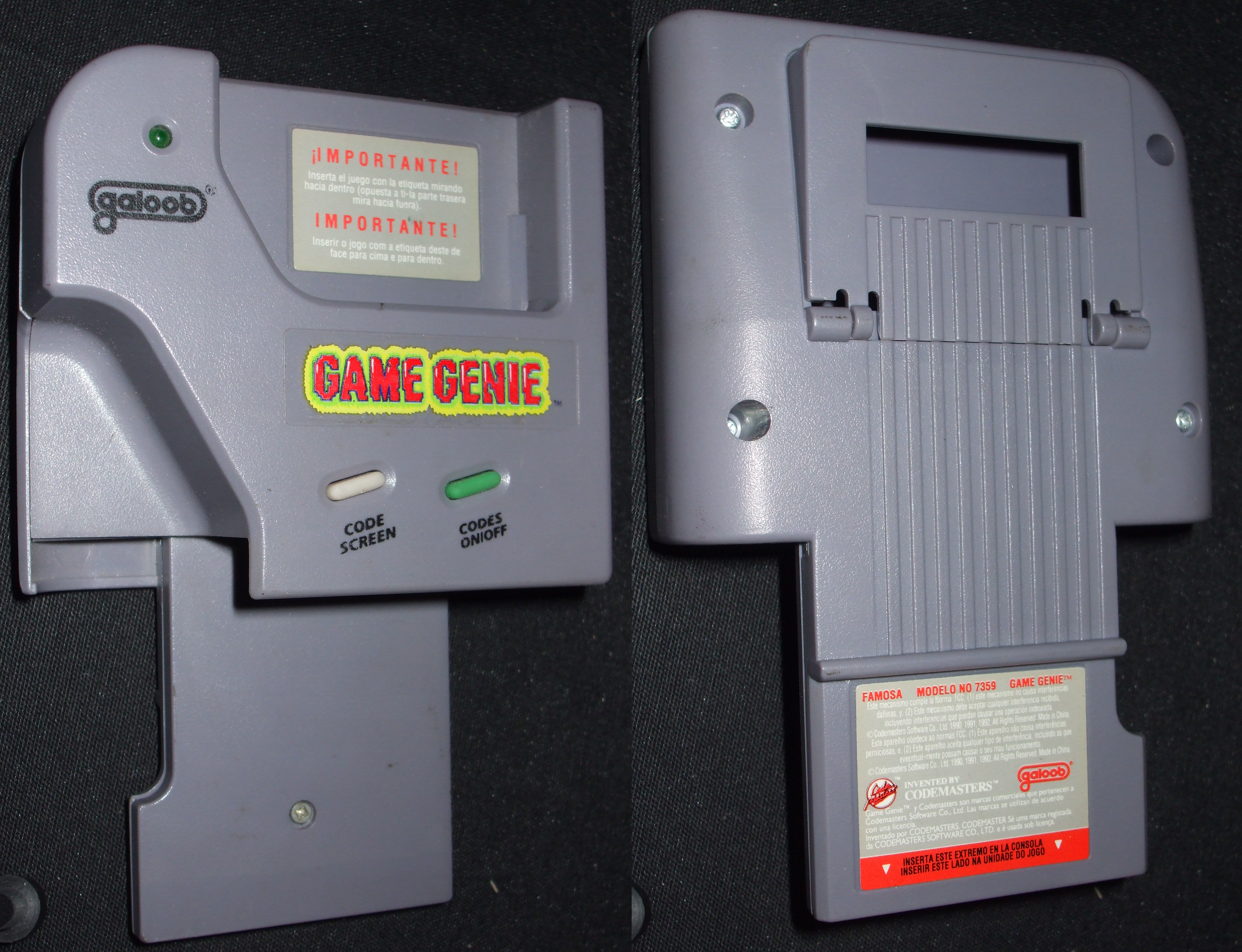 Game Genie for Game Boy